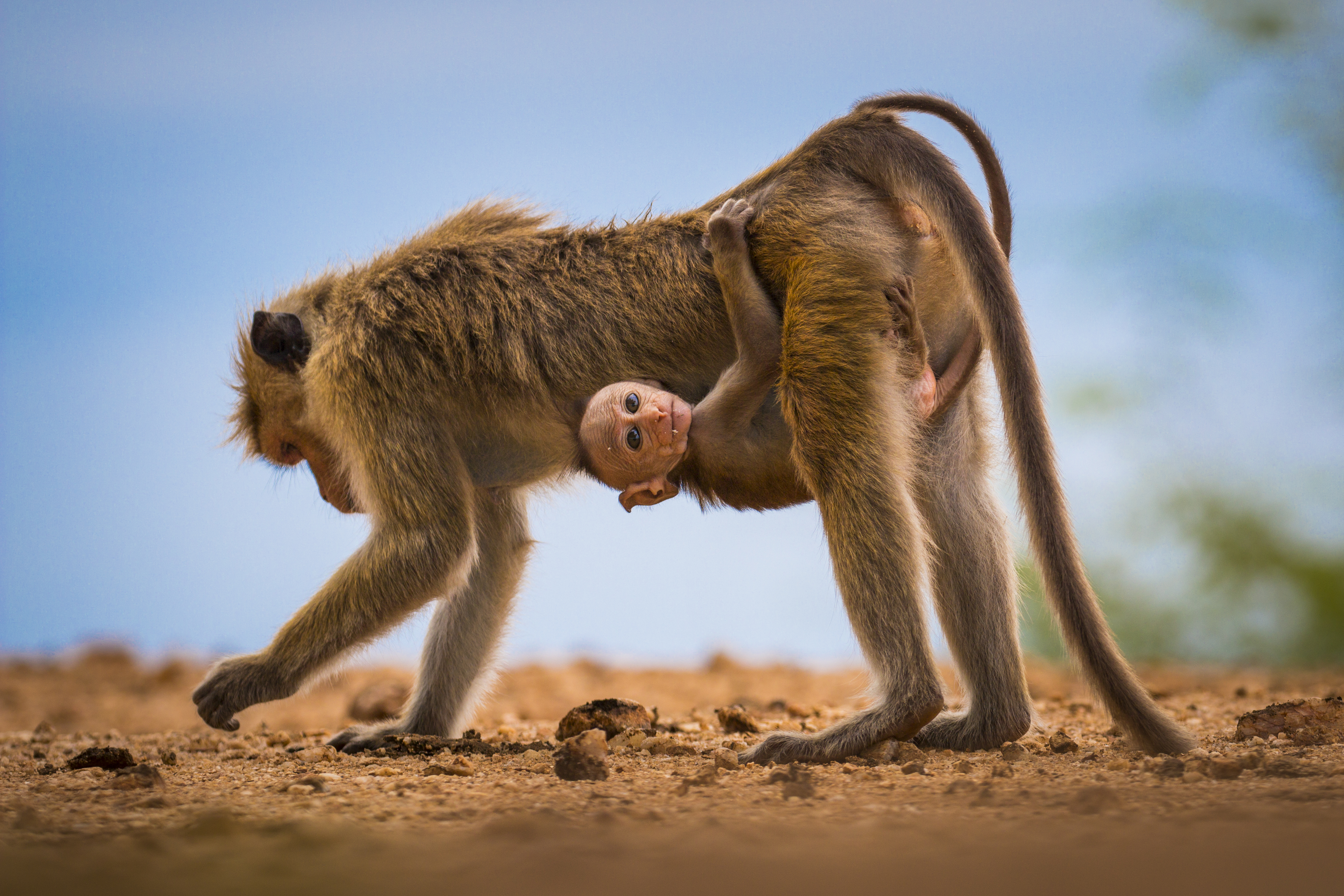 Mother Toque macaque (Macaca sinica) with her child foraging on the hard ground at Katagamuwa Sanctuary - Sri Lanka.